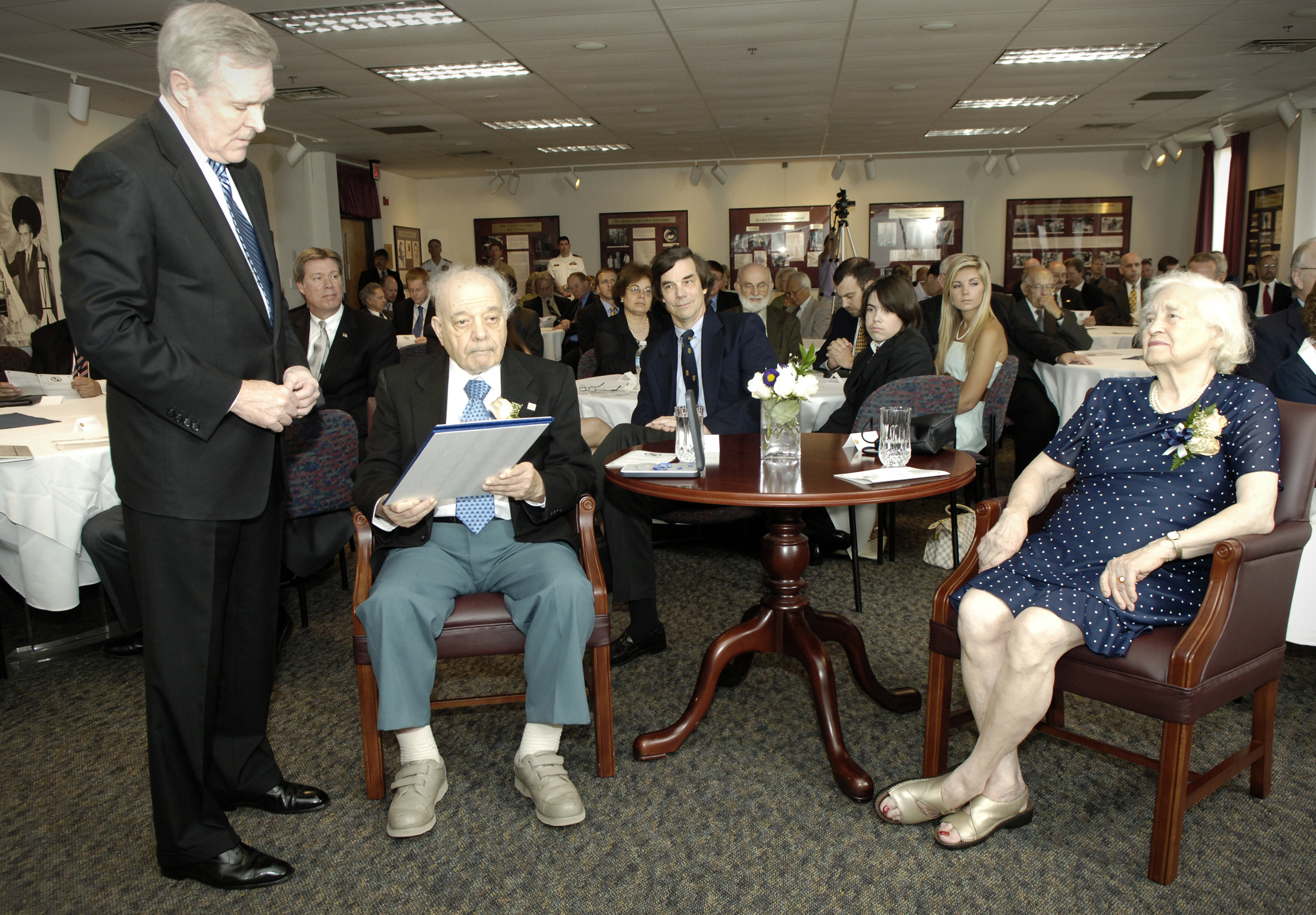 WASHINGTON (July 21, 2009) Secretary of the Navy (SECNAV) the Honorable Ray Mabus presents Department of the Navy Distinguished Civilian Service Awards to Drs. Jerome and Isabella Karle during their retirement from the Naval Research Laboratory after a combined 127 years of government service. The Distinguished Civilian Service Award is the highest Navy award that the SECNAV can confer on a civilian employee. The Karles both worked on the Manhattan Project that developed the first atomic weapon and Jerome Karle was a co-recipient of the 1985 Nobel Prize in Chemistry. (U.S. Navy photo by John F. Williams/Released)